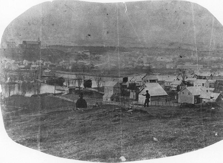 Sherbrooke, Quebec, Canada from the east, about 1858. The Aylmer Bridge is on the left, while the Grand Trunk railway covered bridge os on the right. Silver salts on paper mounted on paper - Salted paper process.